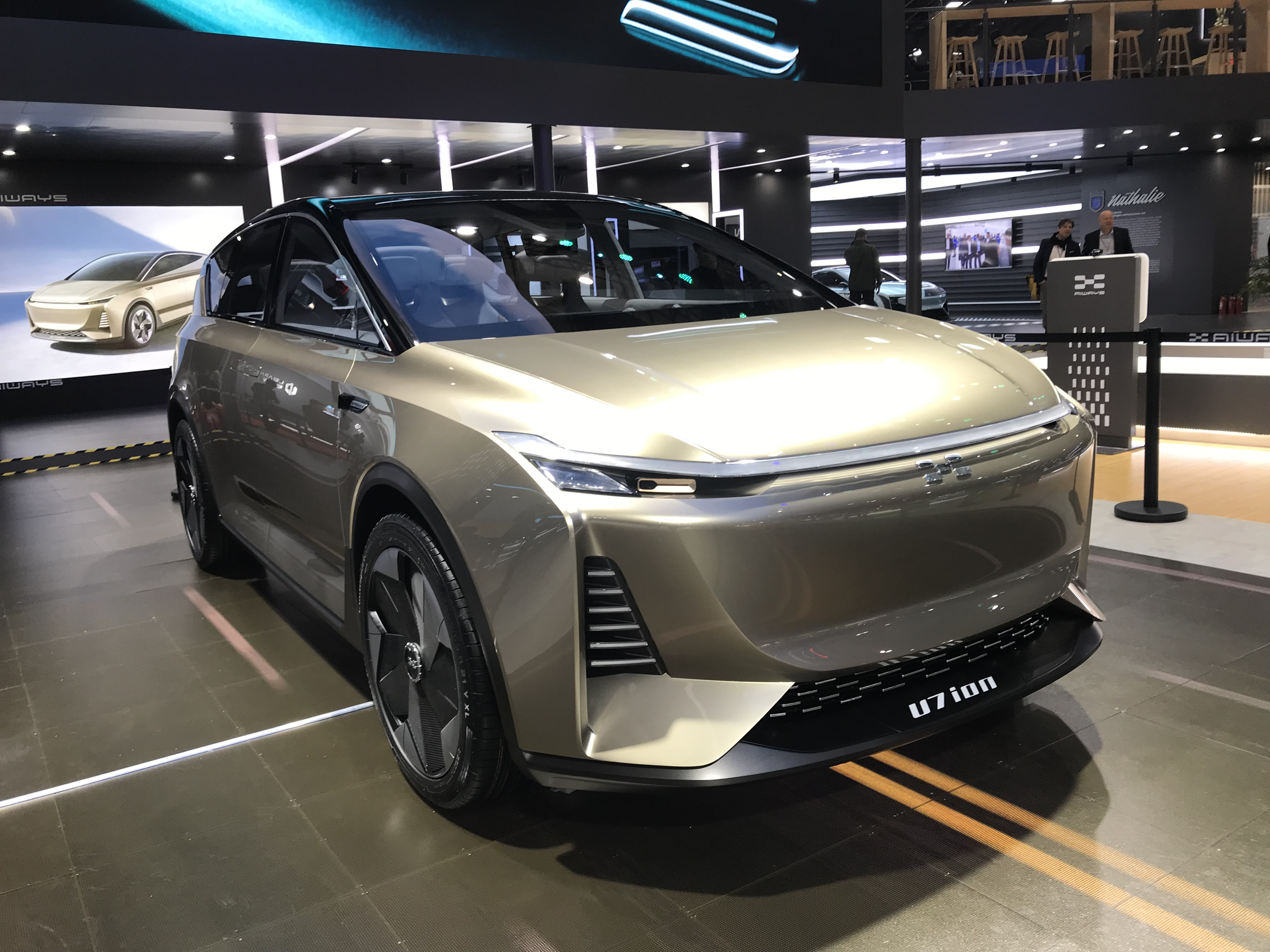 Aiways U7 Ion Concept front